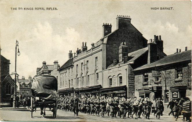 Barnet